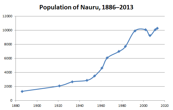 The population of the island nation of Nauru, from the first conducted census of 1921, to the most recent census of 2011.